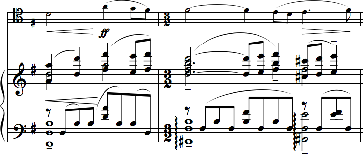 Cello Sonata, op. 19, composed by Sergei Rachmaninoff in 1901. Excert from fourth movement. See Cello Sonata.